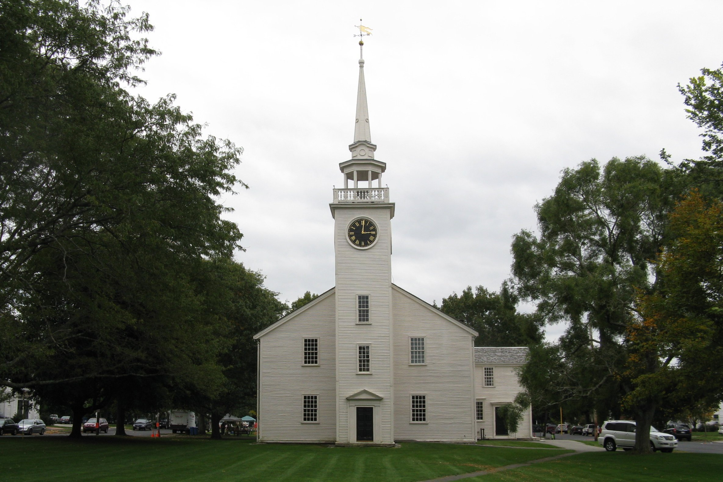 First Parish in Cohasset Massachusetts